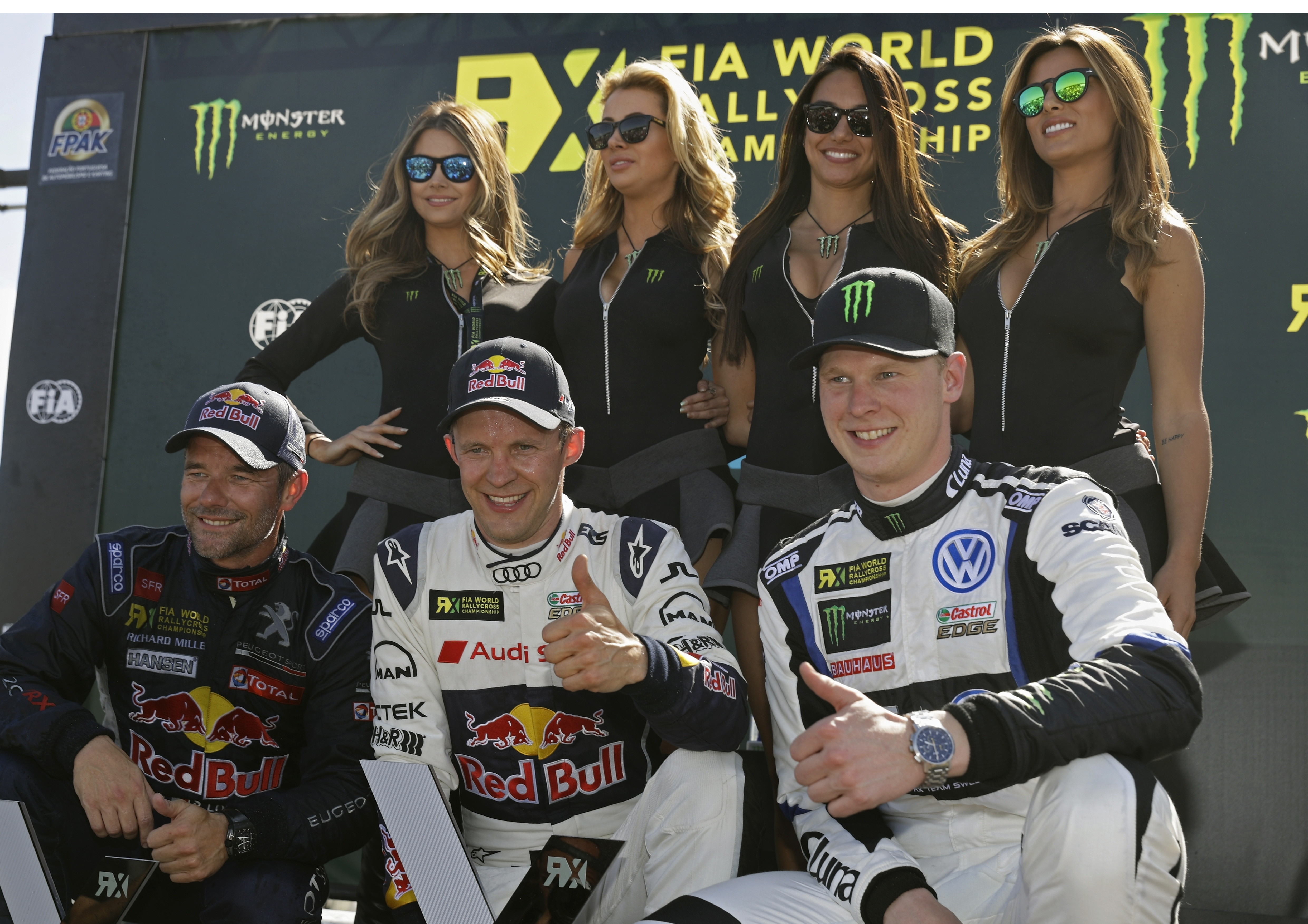 2017 FIA World Rallycross Championship // Round 02, Montalegre // Credit: EKS/Bodo Kraeling